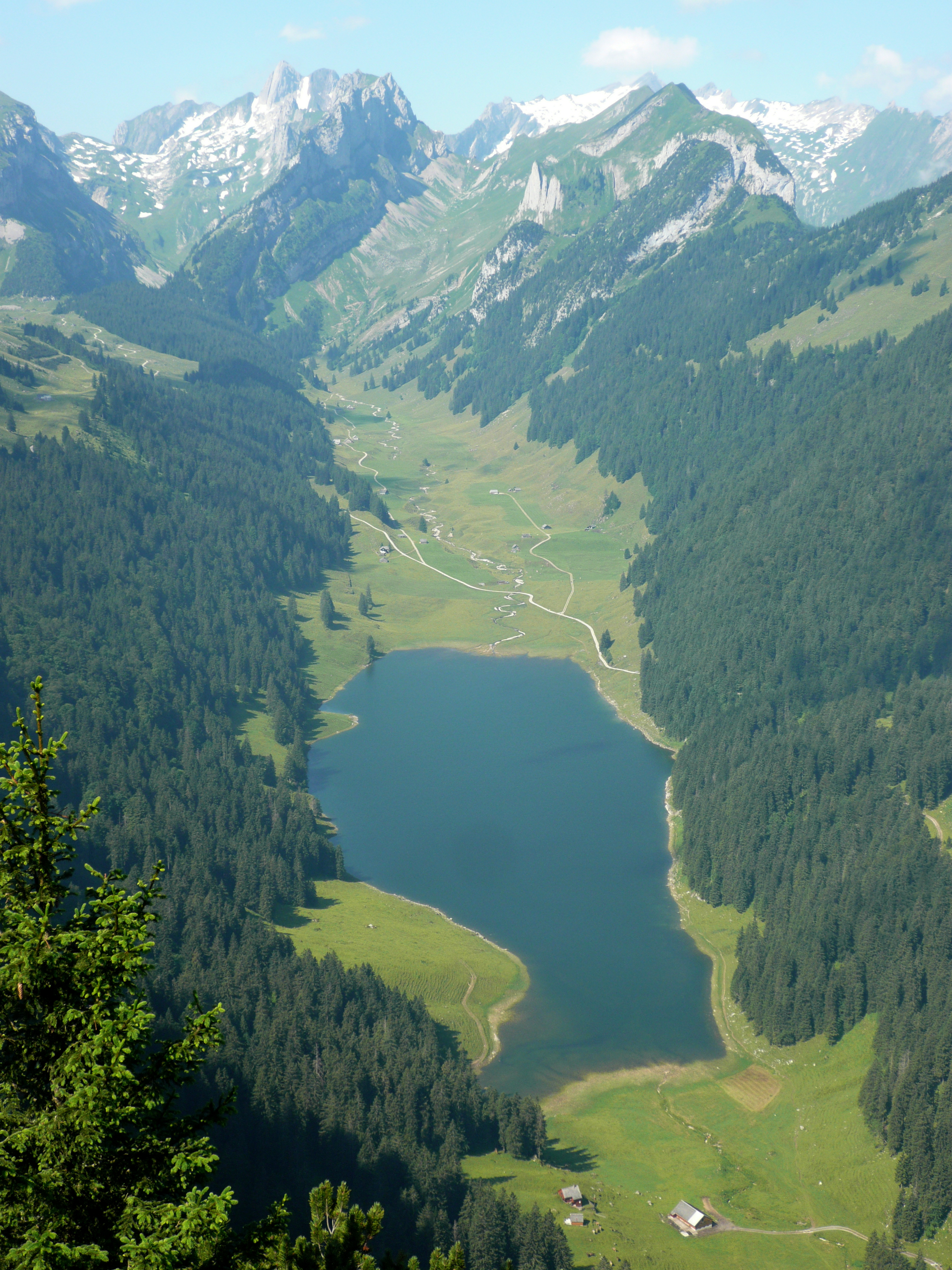 Saemtisersee, Switzerland